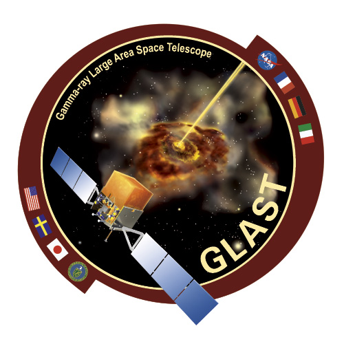 This is the logo used by GLAST scientists in web pages, presentations, etc.